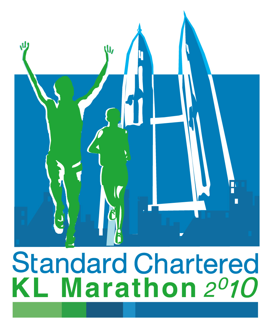 Standard Chartered KL Marathon 2010 Logo